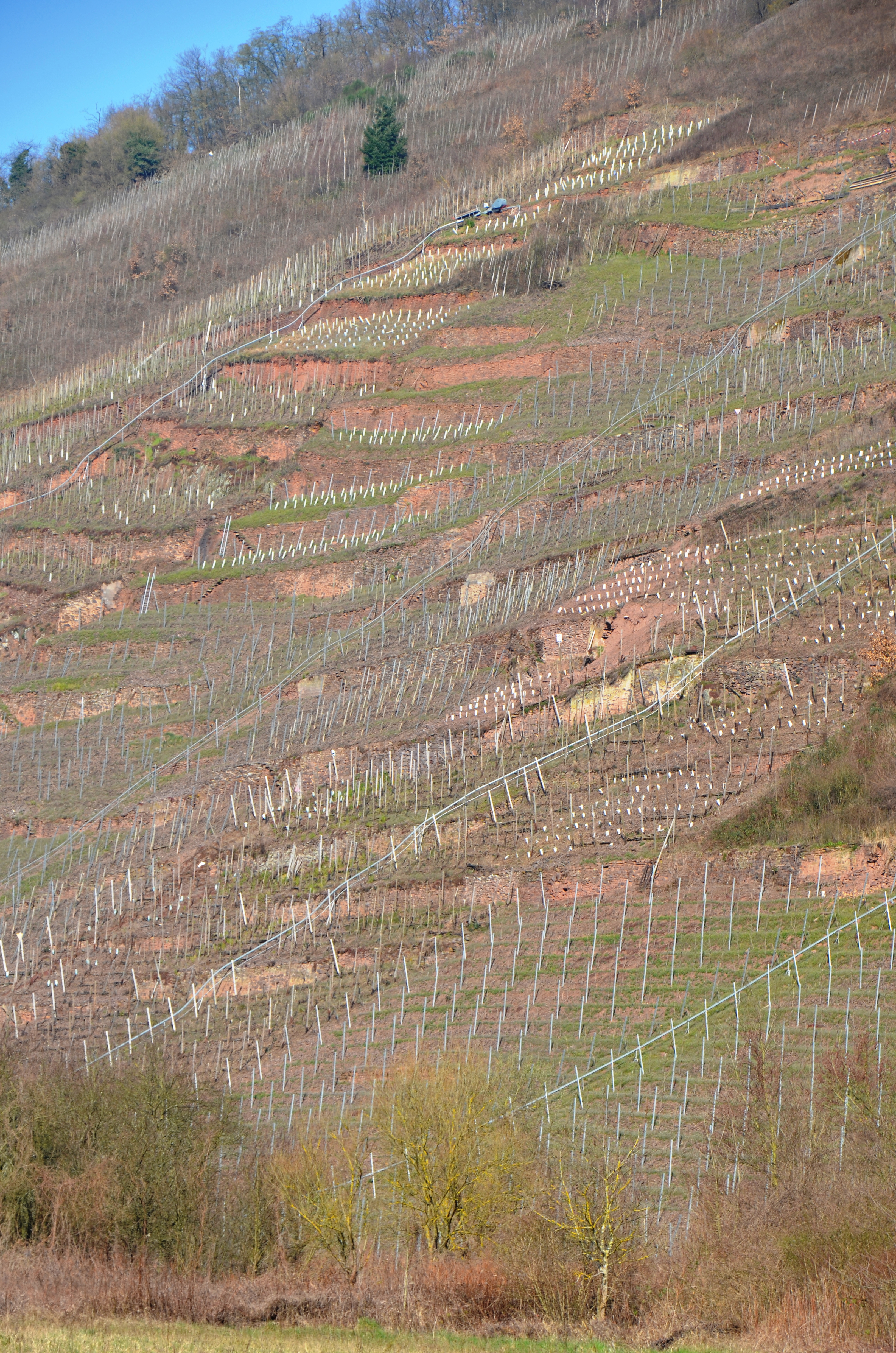 Ediger Elzhofberg